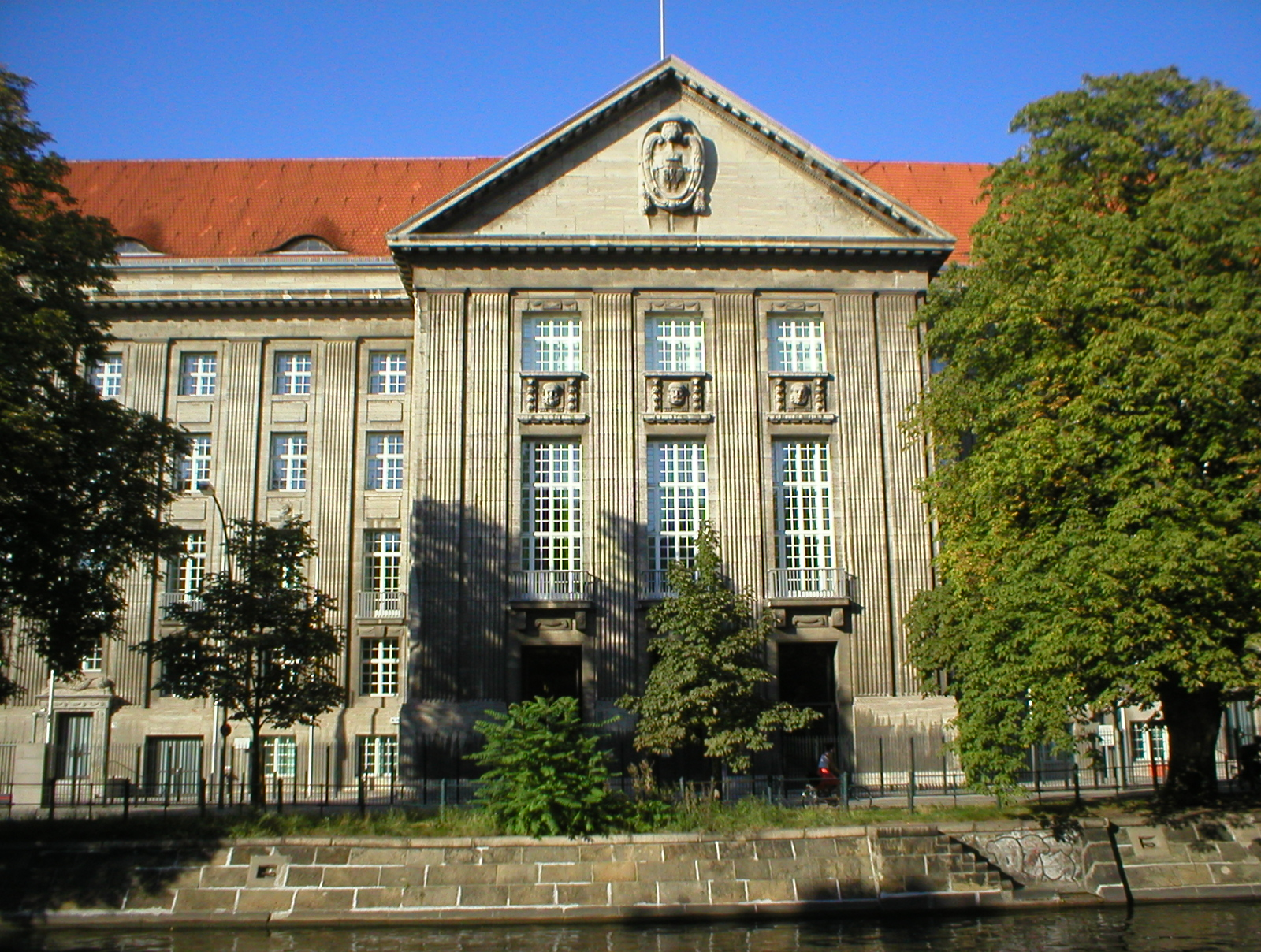 The german Ministry of Defense in Berlin; entrance portal at Landwehrkanal river side